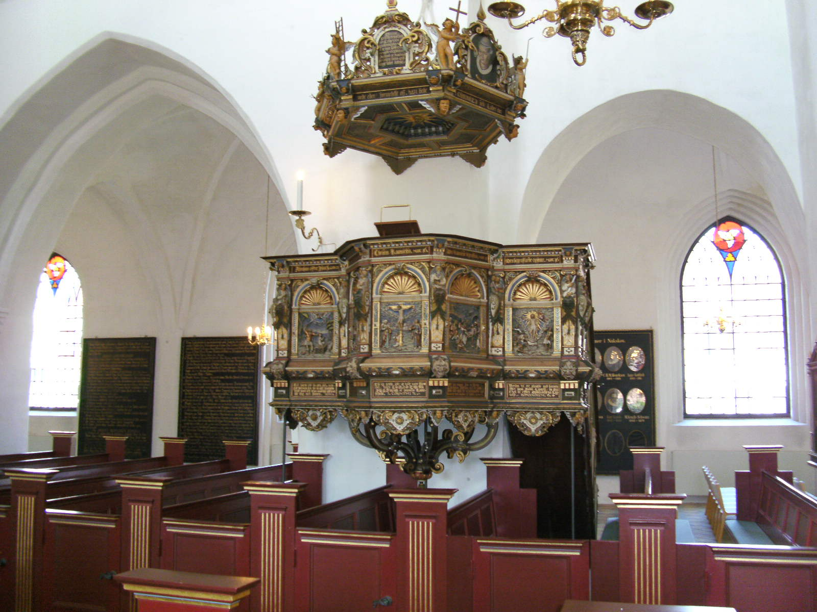 Pulpit in Sankt_Nikolai Church in Nakskov, Community of Guldborgsund, diocese of Lolland-Falster. Date: 2010.08.16 Author: Sir48